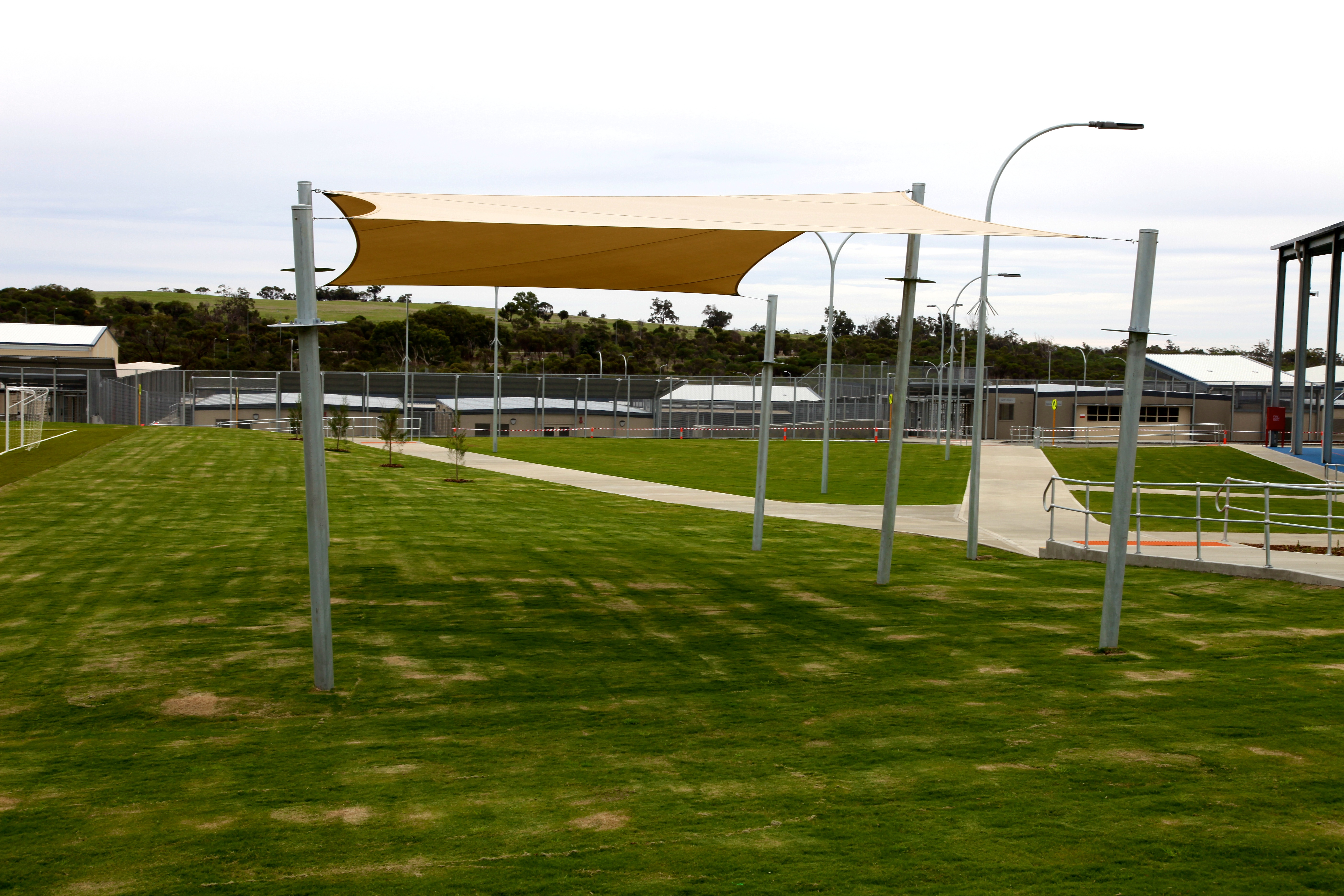 Yongah Hill Immigration Detention Centre